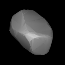 3D convex shape model of 1900 Katyusha, computed using light curve inversion techniques. J. Hanuš, J. Ďurech, M. Brož, B. D. Warner (June 2011). "A study of asteroid pole-latitude distribution based on an extended set of shape models derived by the lightcurve inversion method". Astronomy and Astrophysics 530: A134. ISSN 0004-6361. arXiv